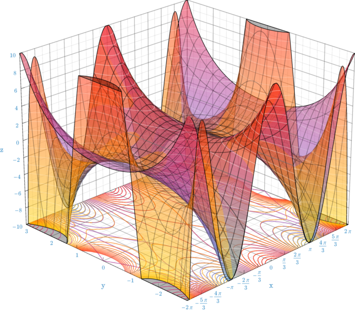 Graphs of z = Re(cos(x+iy)) and an eight-degree taylor series approximation, selfmade with MuPad.